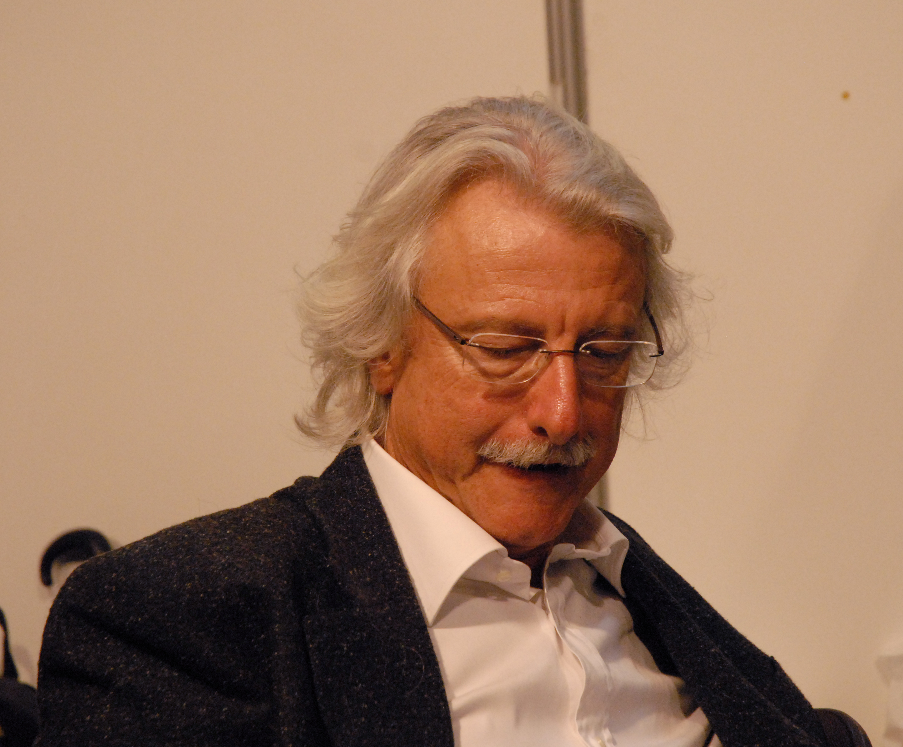 Ivo Milazzo Photo taken during Lucca Comics&Games 2010